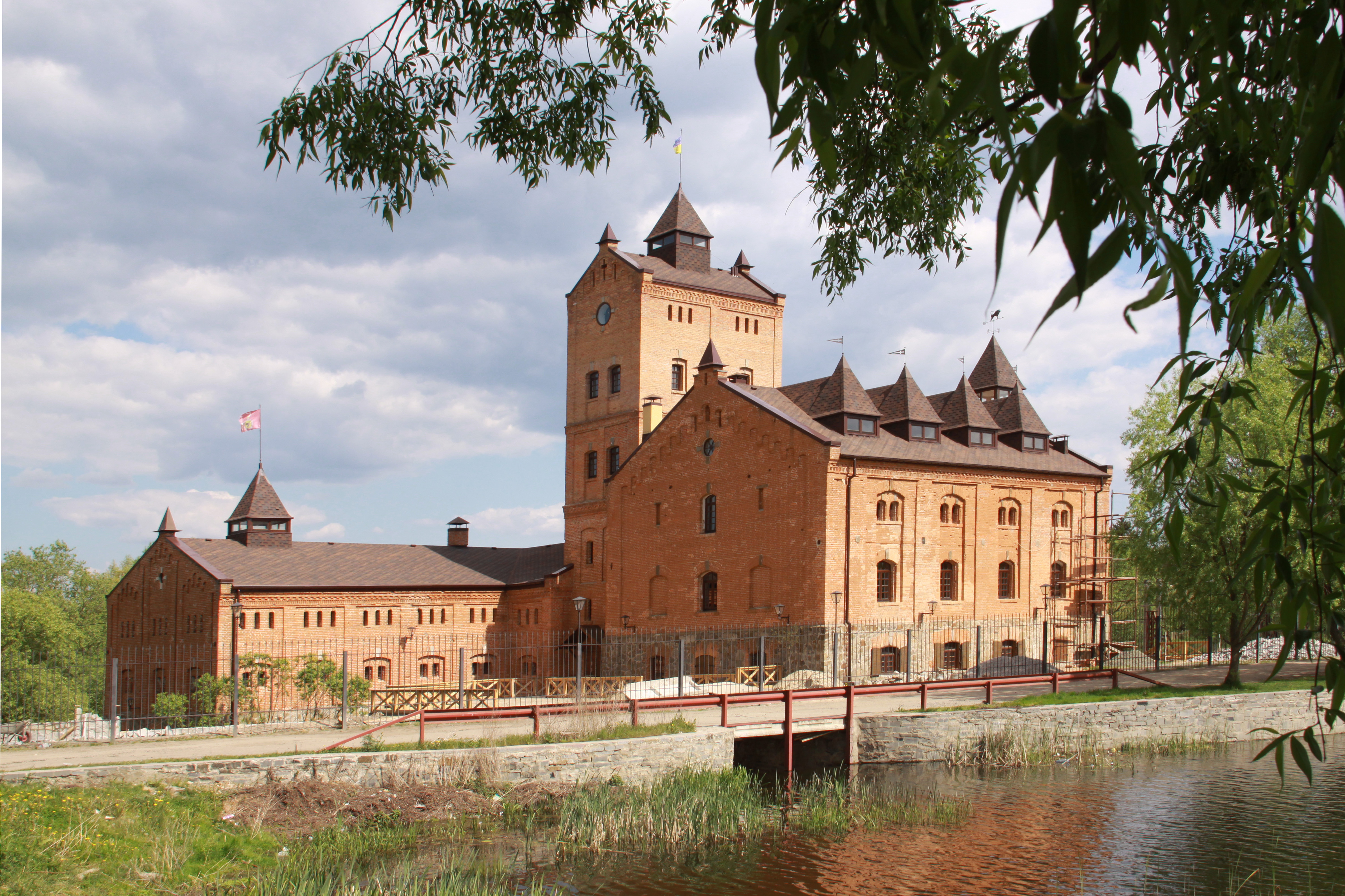 The main building of Radomysl Castle based upon the suggested remains of the paper mill